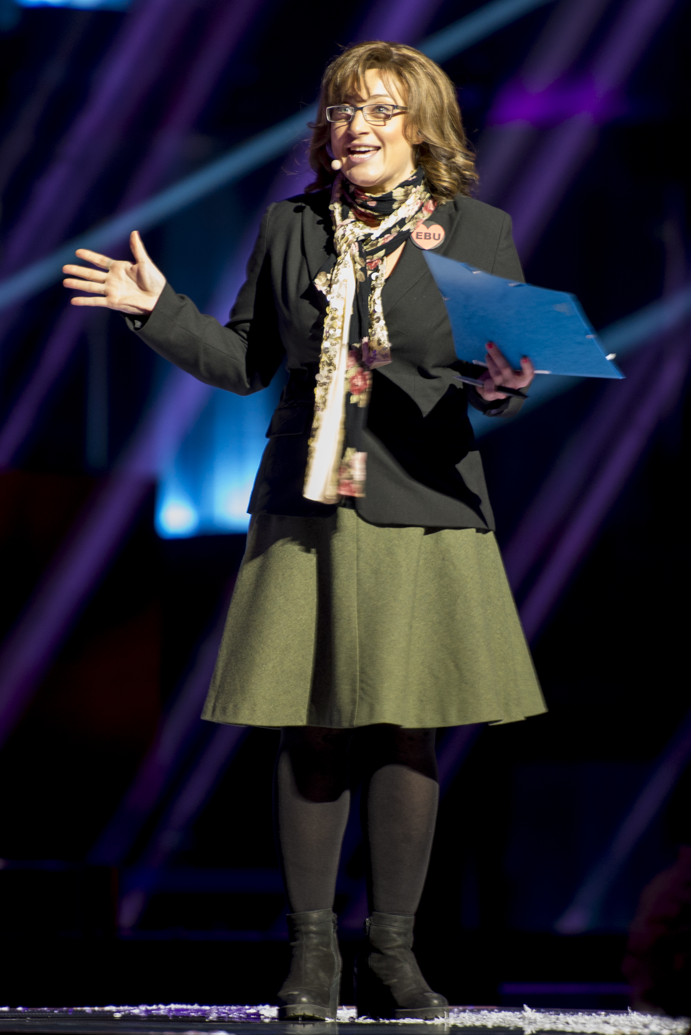 Lynda Woodruff (Sarah Dawn Finer) during the Eurovision Song Contest 2016 in Stockholm. (Help translate this text)